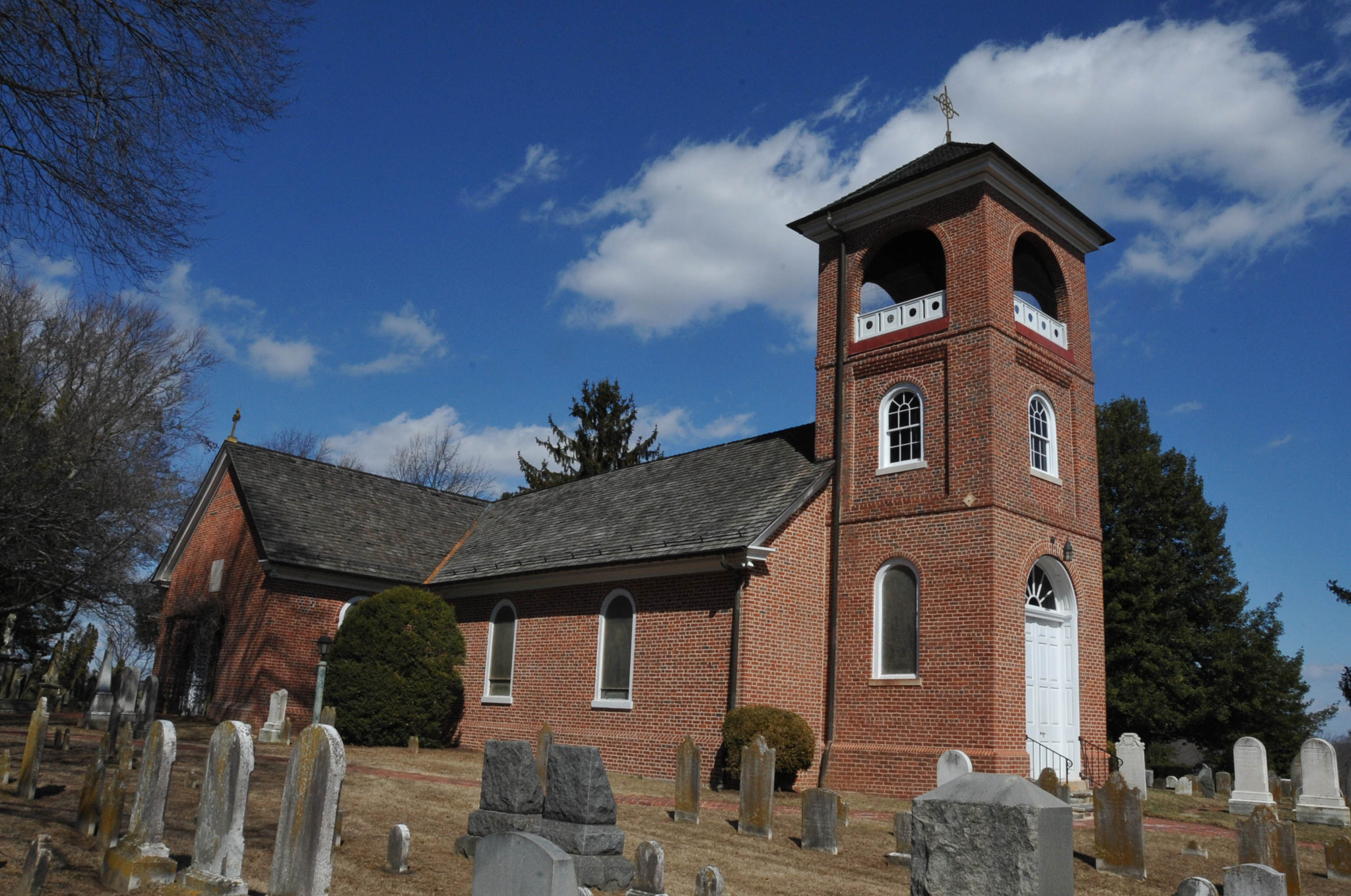 ST. JAMES’ EPISCOPAL CHURCH ESTABLISHED IN 1750 AS THE CHAPEL OF EASE ON MY LADY’S MANOR